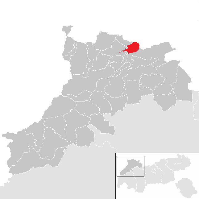 District Reutte